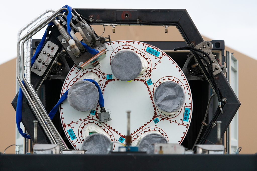 Launch campaign of the first Rocket 3.0 of Astra Space.